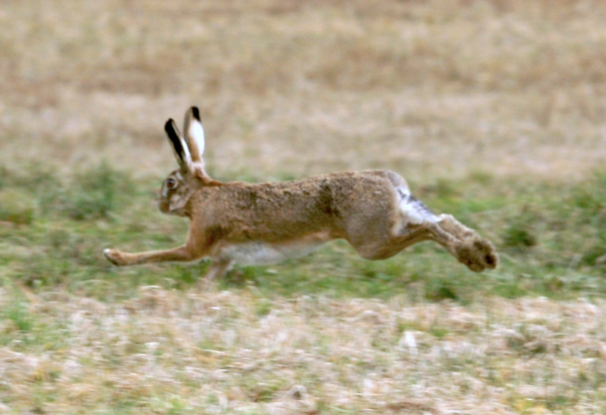 The European Hare or Brown Hare (Lepus europaeus) is a species of hare native to northern, central, and western Europe and western Asia.